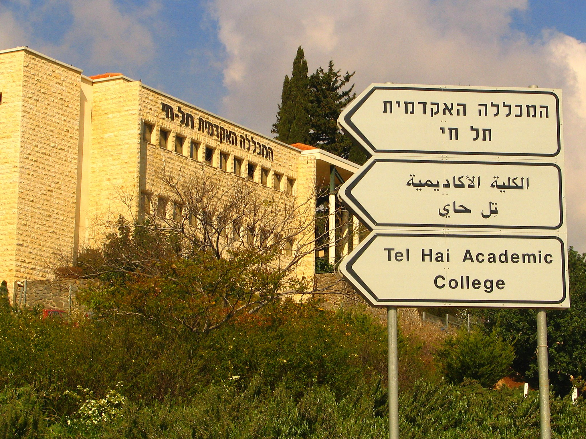 Tel Hay College's entrance, Israel.